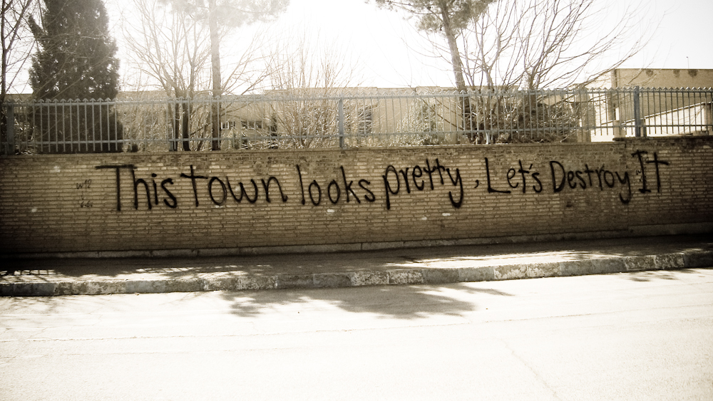 A Vandalized town in najafabad